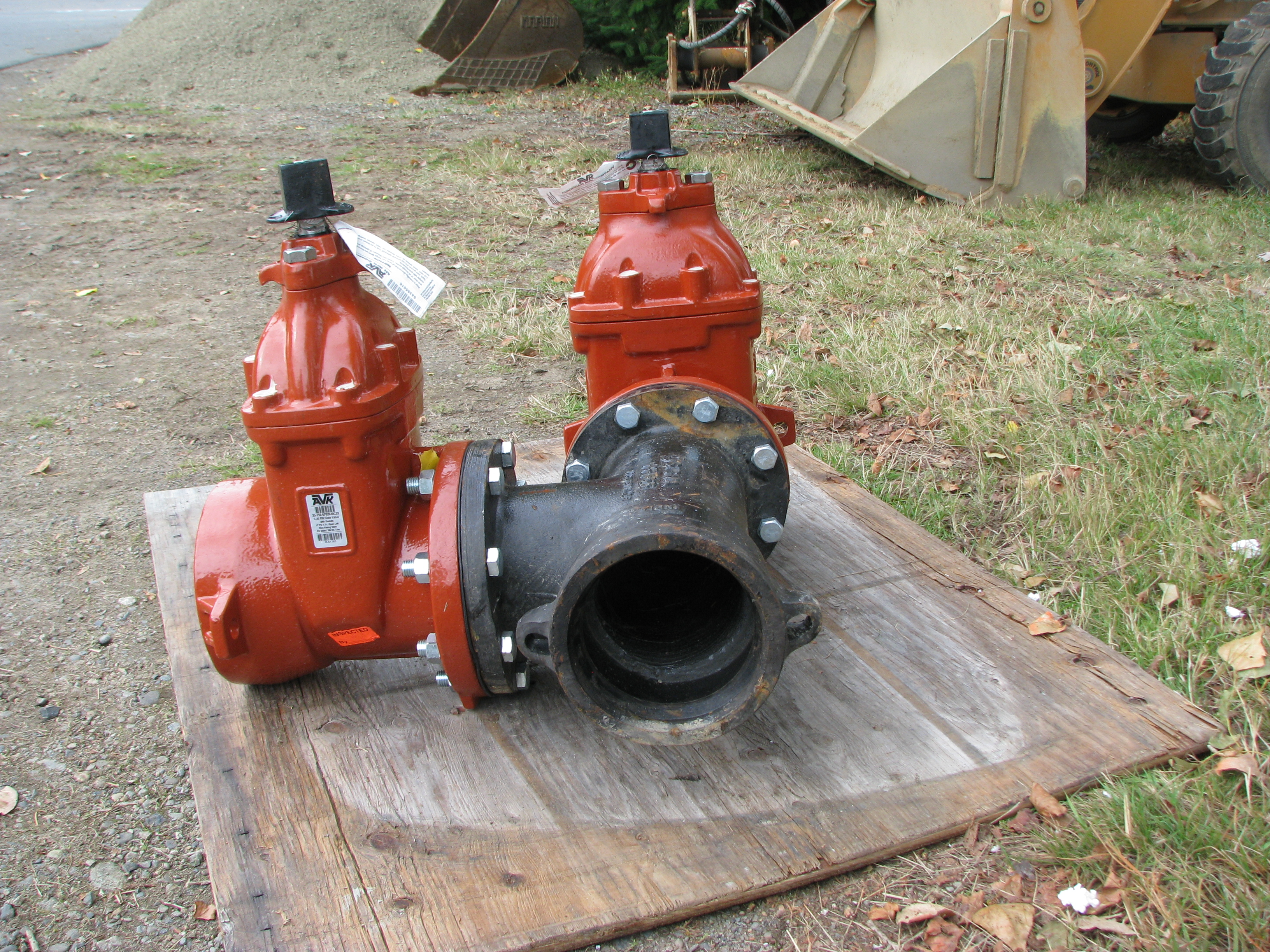 New gate valve ready to install in water main upgrade at Qualicum Beach, BC, Canada, 2011